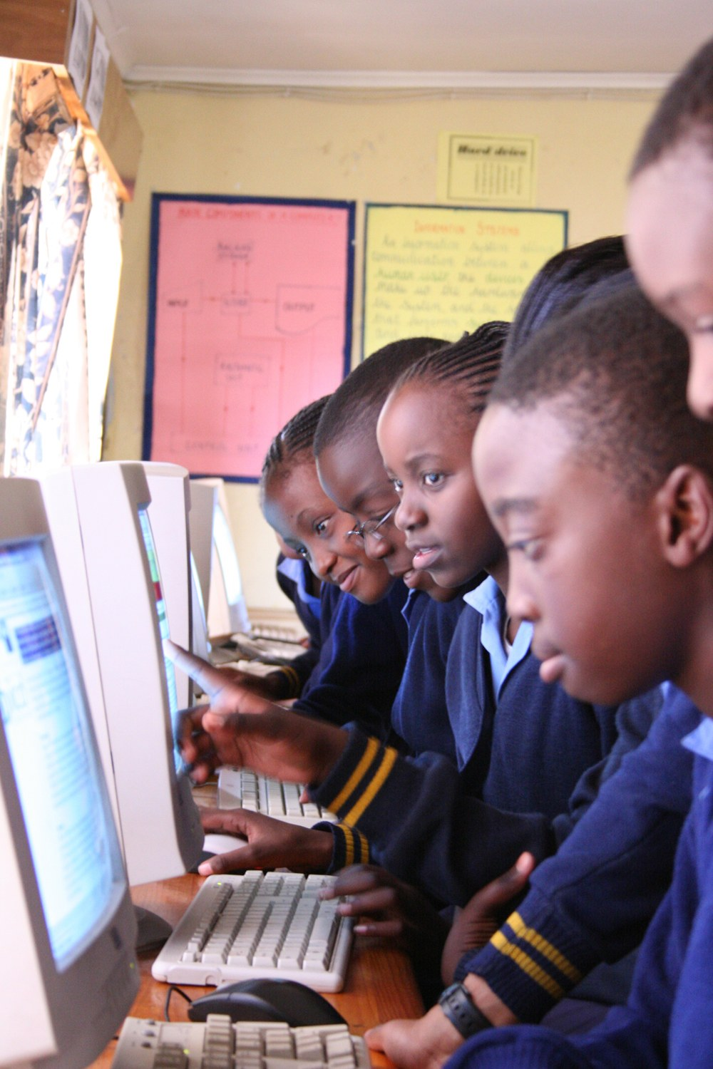 Students from Rhodes Park Secondary School, Zambia taking part in a Global Teenager Project Learning Circle.